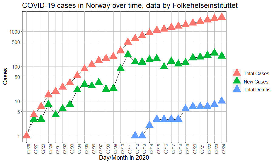 Rplot11